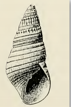 Odostomia helga Dall & Bartsch, 1909; Pyramidellidae